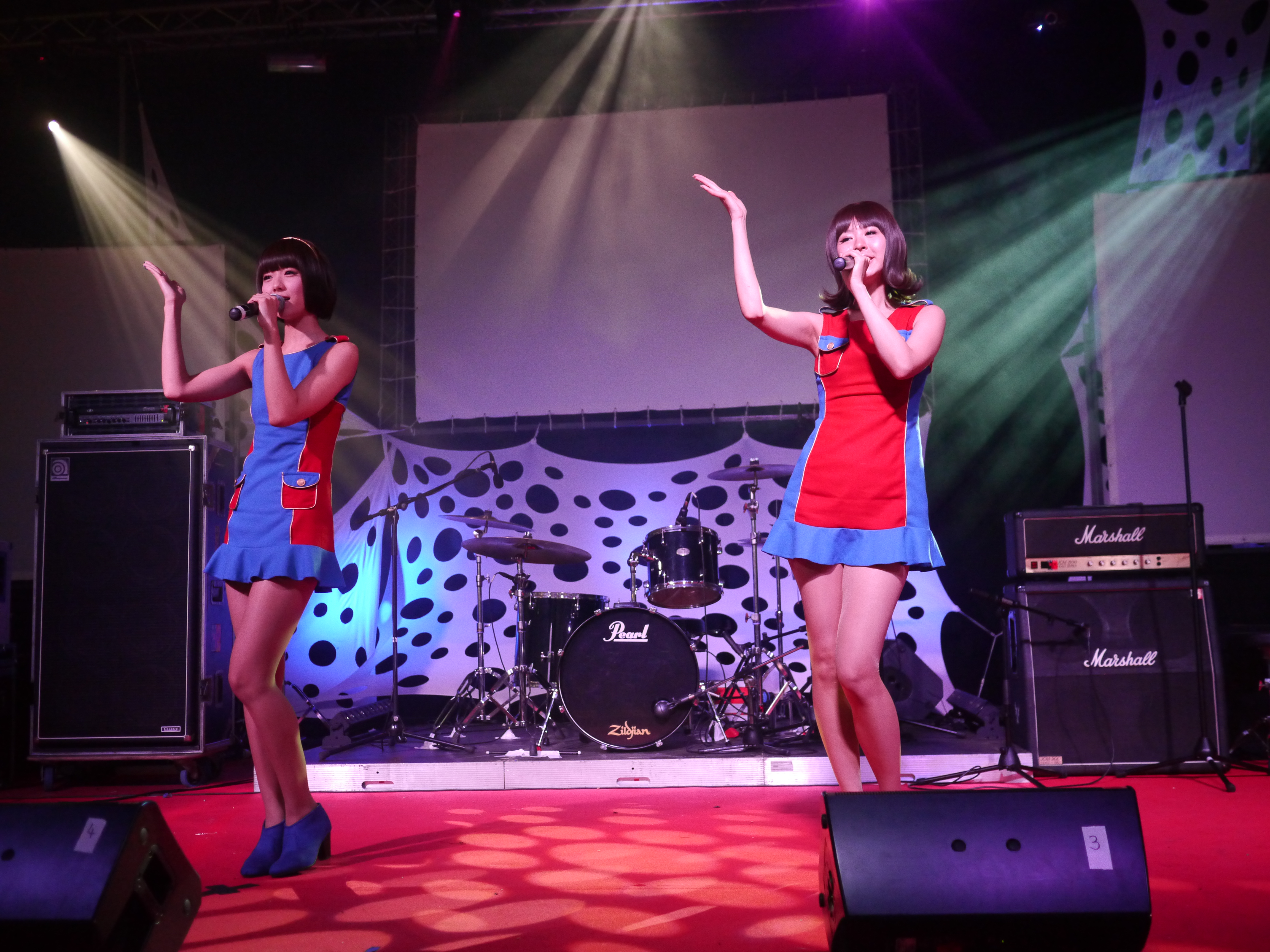 Toulouse Game Show Festival, 6th edition.